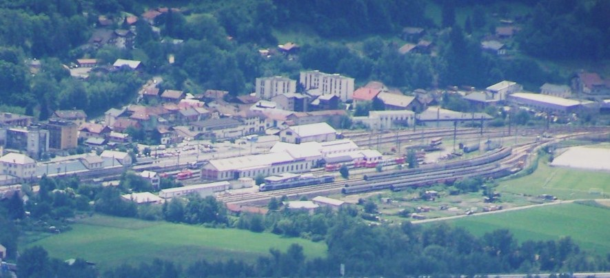 Sight on Saint-Gervais-les-Bains - le Fayet railway station, from Plateau d'Assy in Haute-Savoie, France.